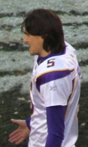 Minnesota Vikings and Washington Redskins shake hands after their game on Nov. 28, 2010. L-R: Vikings #59 Heath Farwell, Redskins #4 Graham Gano, Redskins #17 Hunter Smith, Vikings #8 Ryan Longwell, Vikings #5 Chris Kluwe